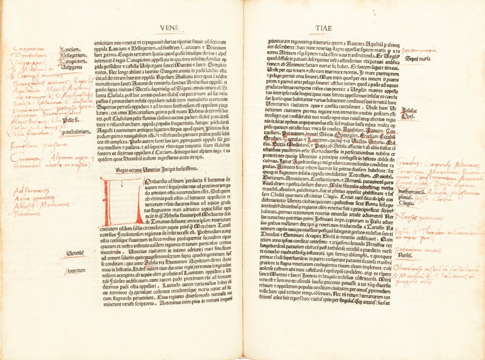 Italia illustrata page opening from 1481 edition, copy sold at Sotheby's